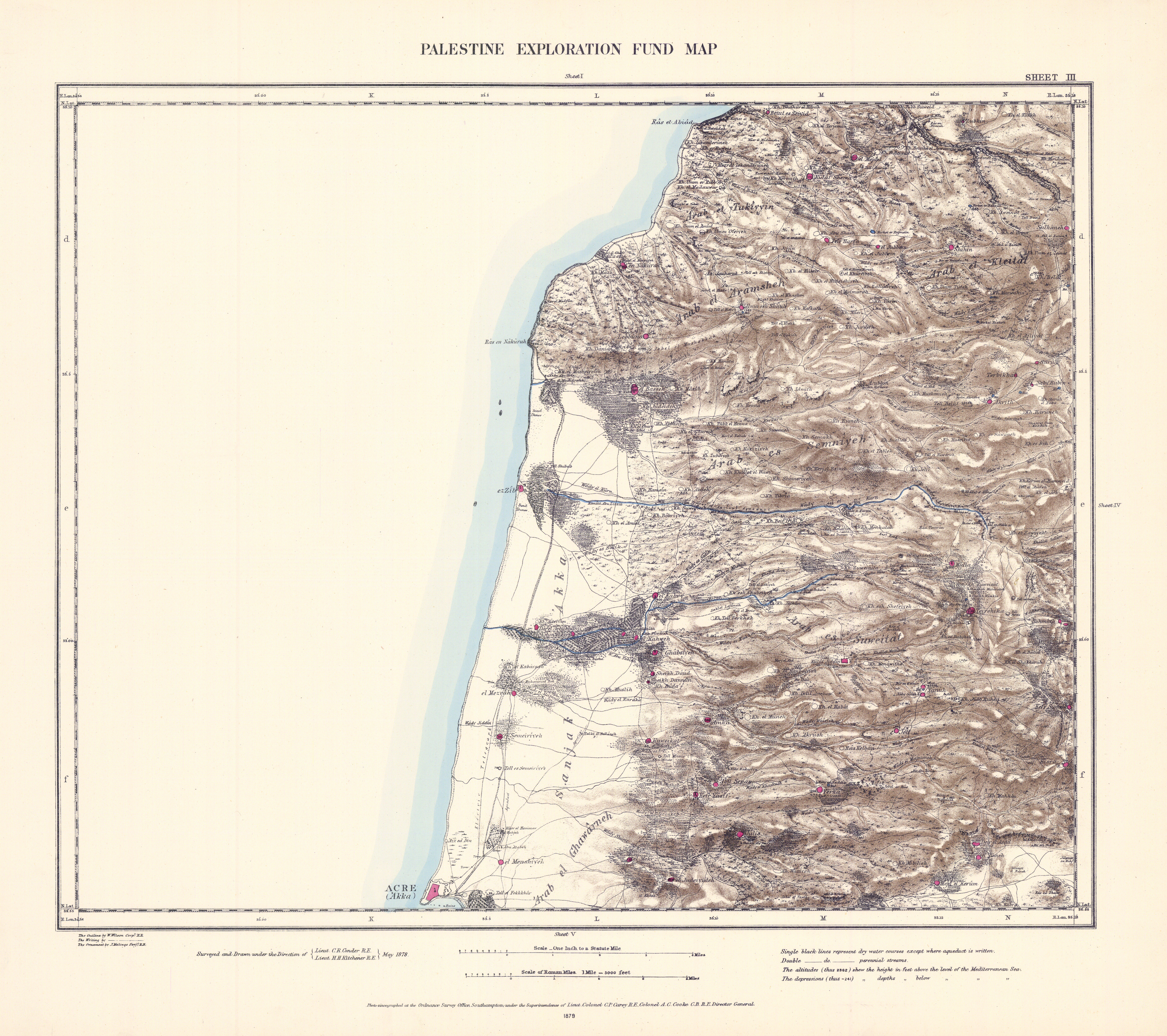 Map of Western Palestine in 26 sheets from the surveys conducted for the Committee of the Palestine Exploration Fund by Lietenanats C.R. Conder and H.H. Kitchener R.E. during the years 1872-1877. Photozincographed and Printed for the Committee ...at the Ordnance Survey Office Southampton. OCLC 234168442. Note I: Marked as copyrighted by Jewish National & University Library, which is not grounded. Note II: This is a collection 72dpi images. For the map in higher resolution, check either David Rumsey Map Collection, Israel Antiquities Authority, The Digital Archaeological Atlas of the Holy Land, Amud Anan (Hebrew), or a CD from BiblePlaces.